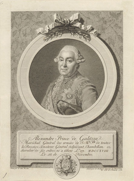 Depicted in a short wig, in embroidered jacket, with ribbon and star of the St. Andrew; under the left hand is visible part of the three-cornered hats.